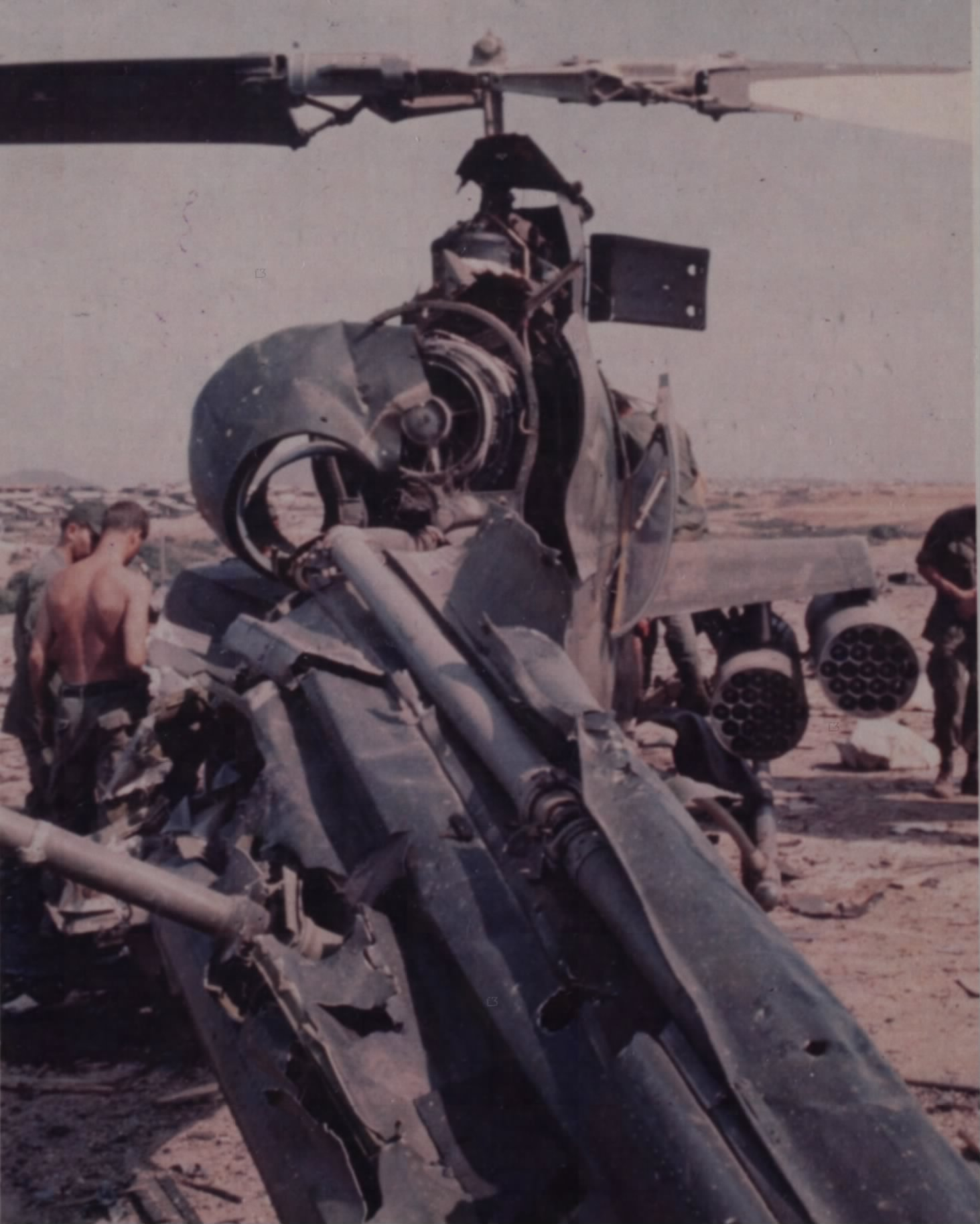 Camp Eagle, Vietnam. Members of the 101st Airborne Division, examine a damaged AH-1G Cobra gunship at El Toro Pad. The damage was caused by an enemy rocket attack.